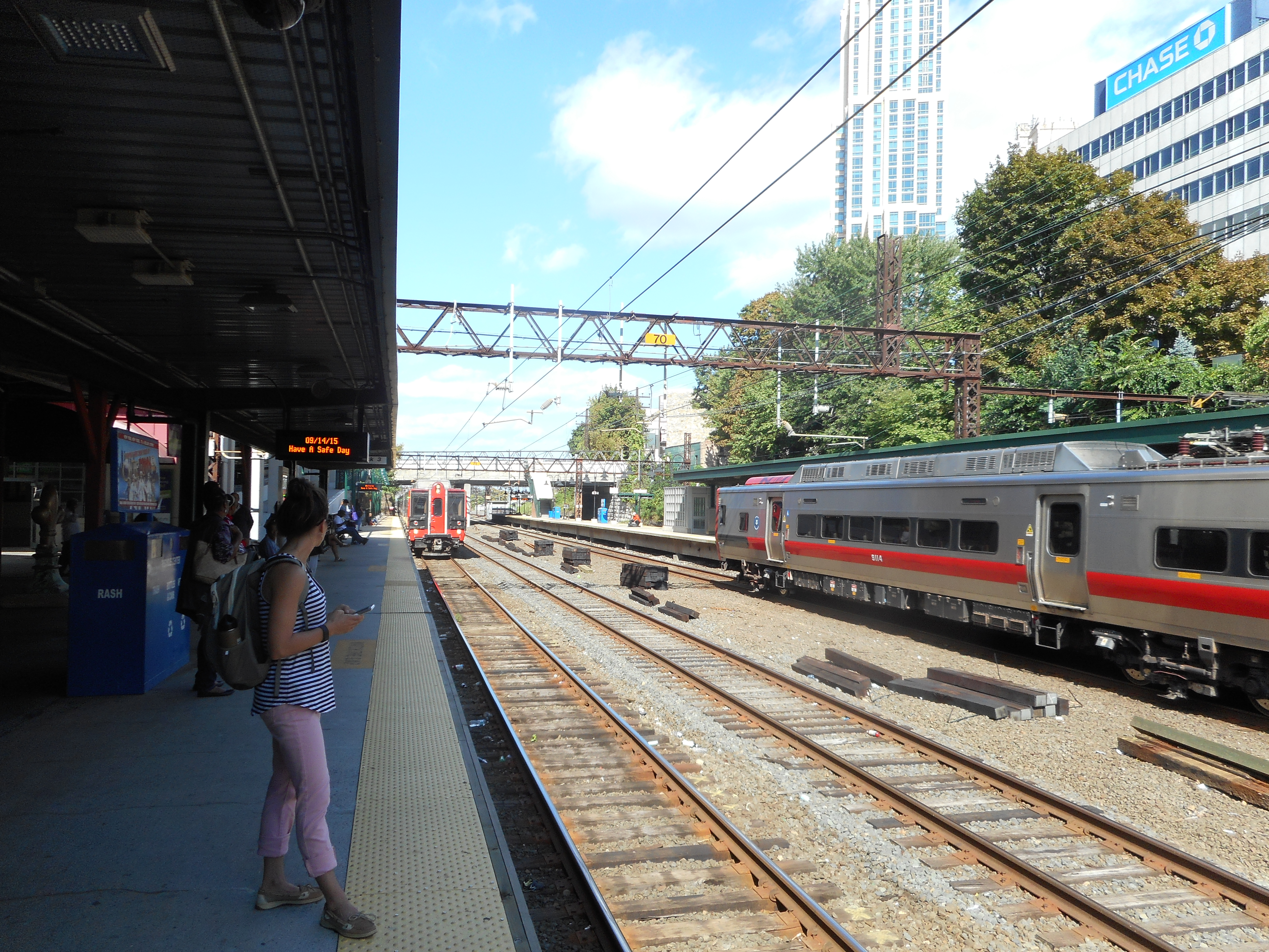 Two M8 (railcar)s arrive at New Rochelle Metro-North station; one bound for Grand Central Terminal in New York City, and the other bound for Connecticut, probably State Street Station in New Haven.